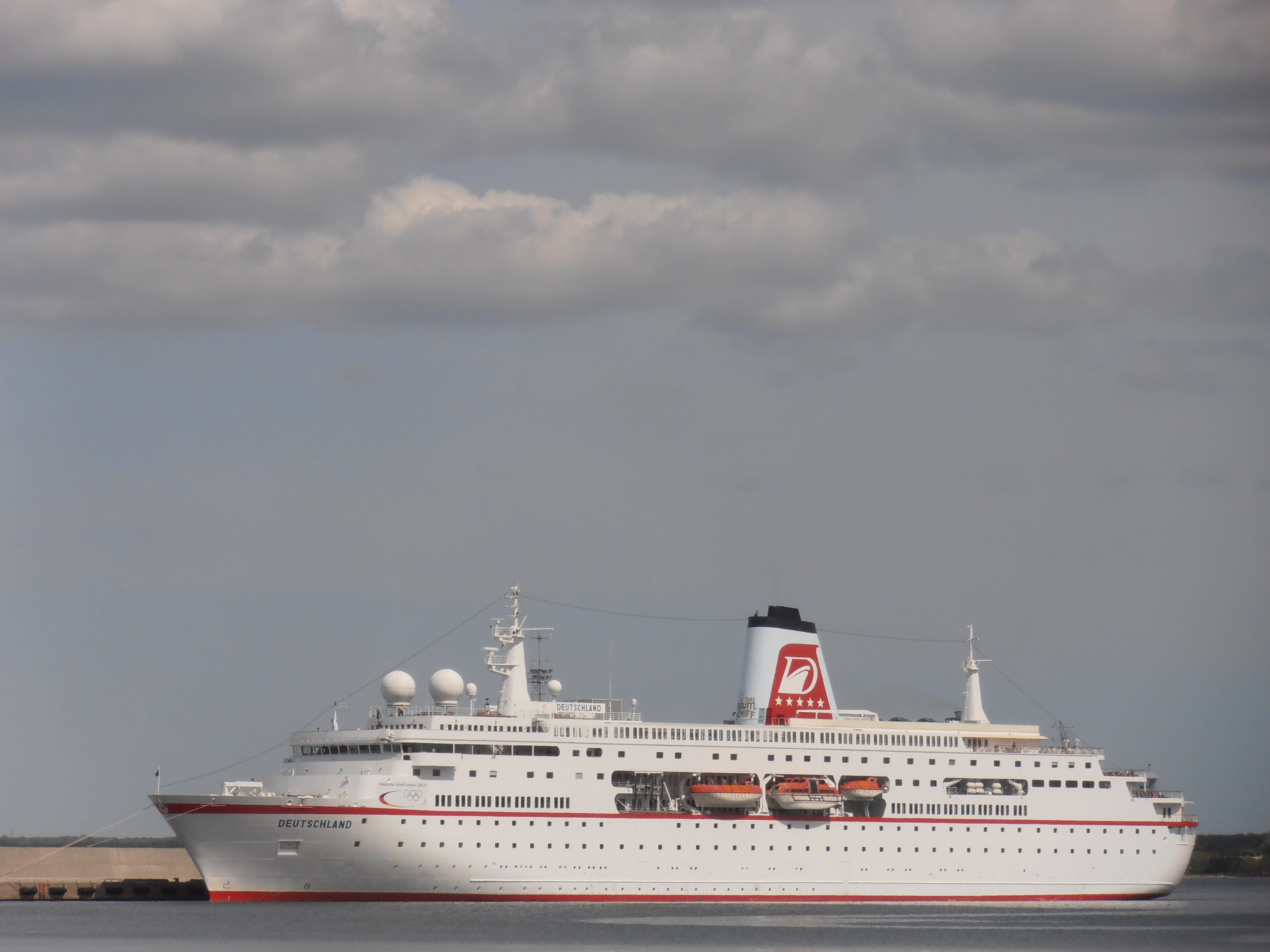 Deutschland, IMO 9141807, at quay 17 in Tallinn 19 May 2012